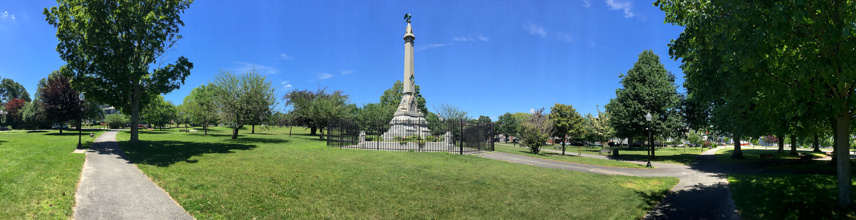 Clasky Common Park, New Bedford, Massachusetts